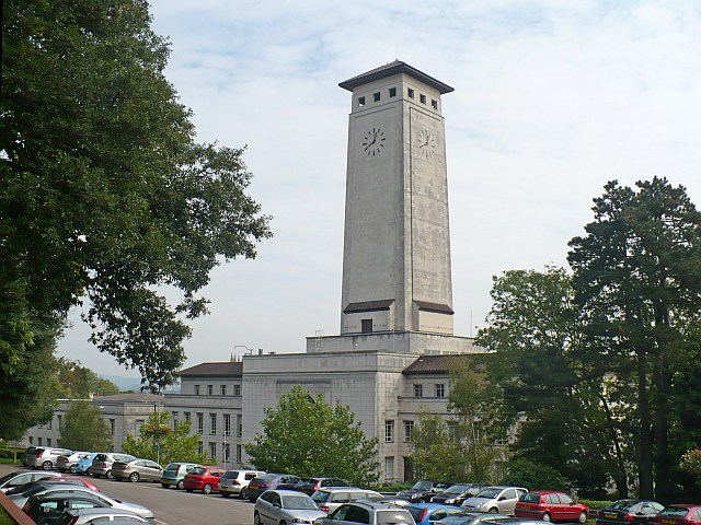 Newport Civic Centre. Because the civic centre is prominently situated on the side of a hill, it is more usually pictured from the other side. 718443 However, it is this side that has the main entrance which is below the level of this car park.